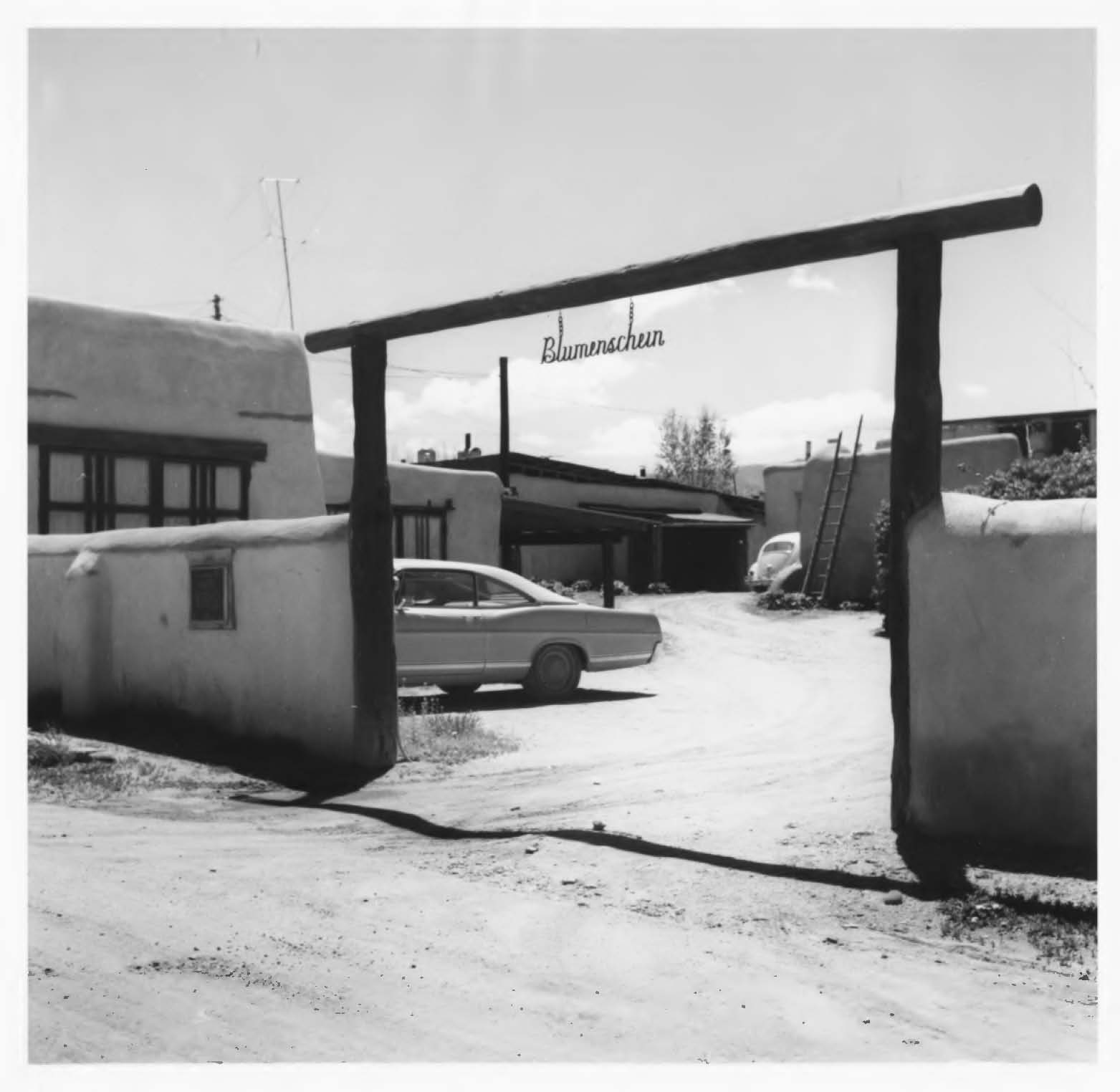 Ernest L. Blumenschein House - Taos County, New Mexico. This image or media file contains material based on a work of a National Park Service employee, created as part of that person's official duties. As a work of the U.S. federal government, such work is in the public domain in the United States. See the NPS website and NPS copyright policy for more information. Object location36° 24′ 21″ N, 105° 34′ 34″ W